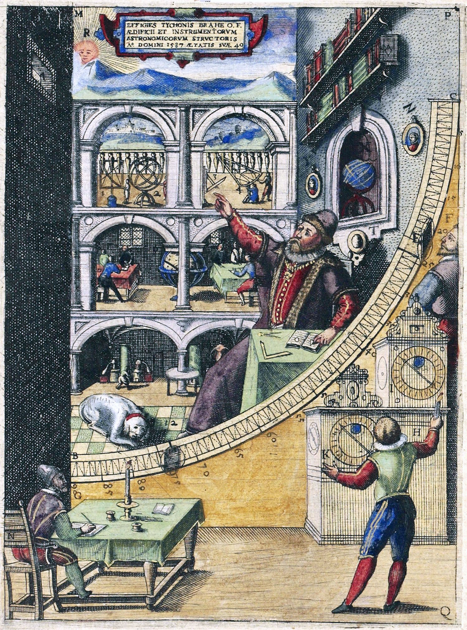 Tycho Brahe's mural quadrant in Uranienborg (Uraniborg). The quadrant (radius c. 194cm) was made from brass and was affixed to a wall that was oriented precisely north-south. The observer (right) views a star through the opposite opening (upper left) to determine the star's altitude as it passes through the meridian. An assistant (lower right) reads the time off a clock and another one (lower left) records the measurements. The area above the quadrant is filled with a mural painting showing several other of Brahe's instruments. See Brahe's original description of the instrument.